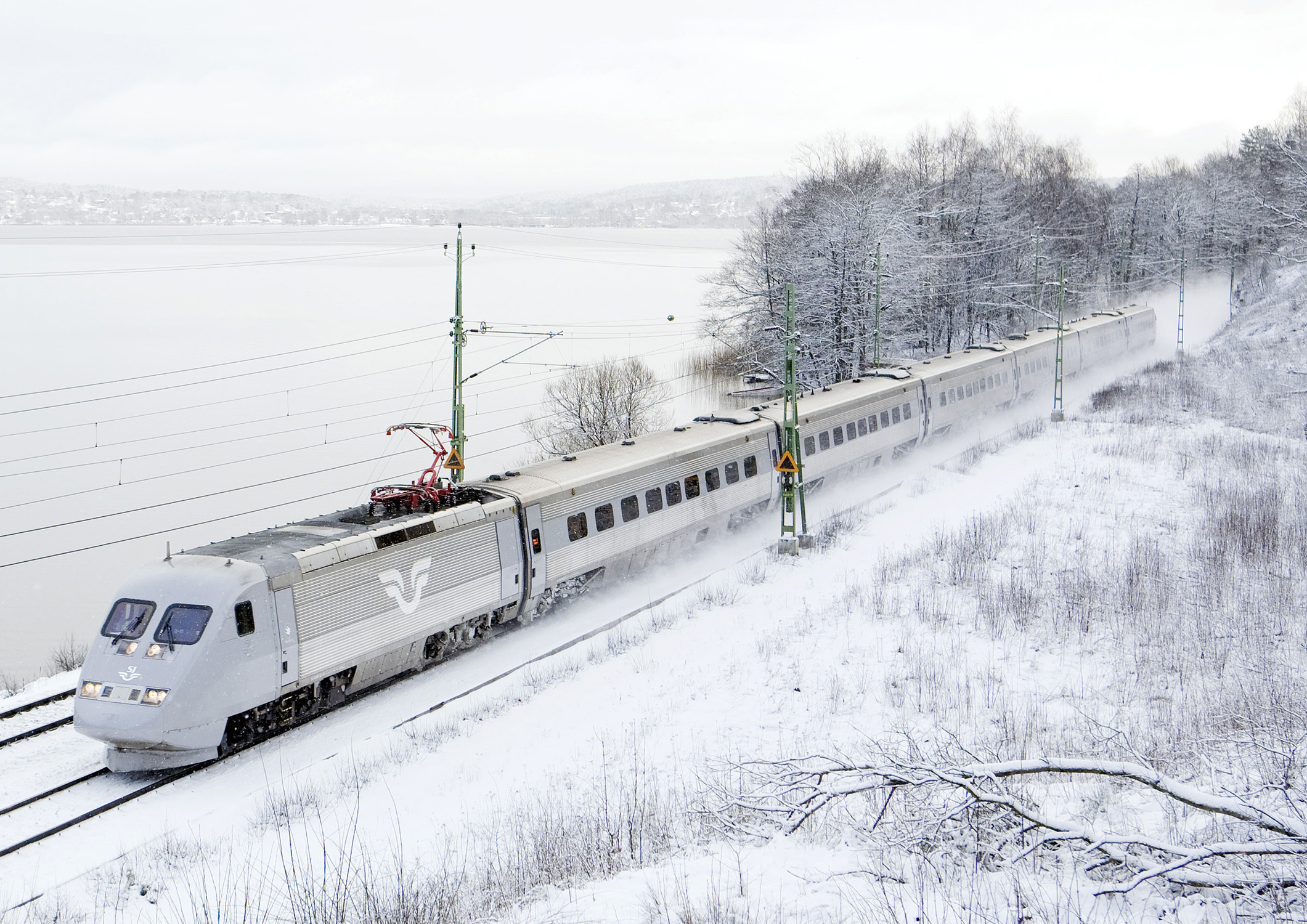 a SJ class X2 trainset in Jonsered, Sweden with the Aspen lake in the background